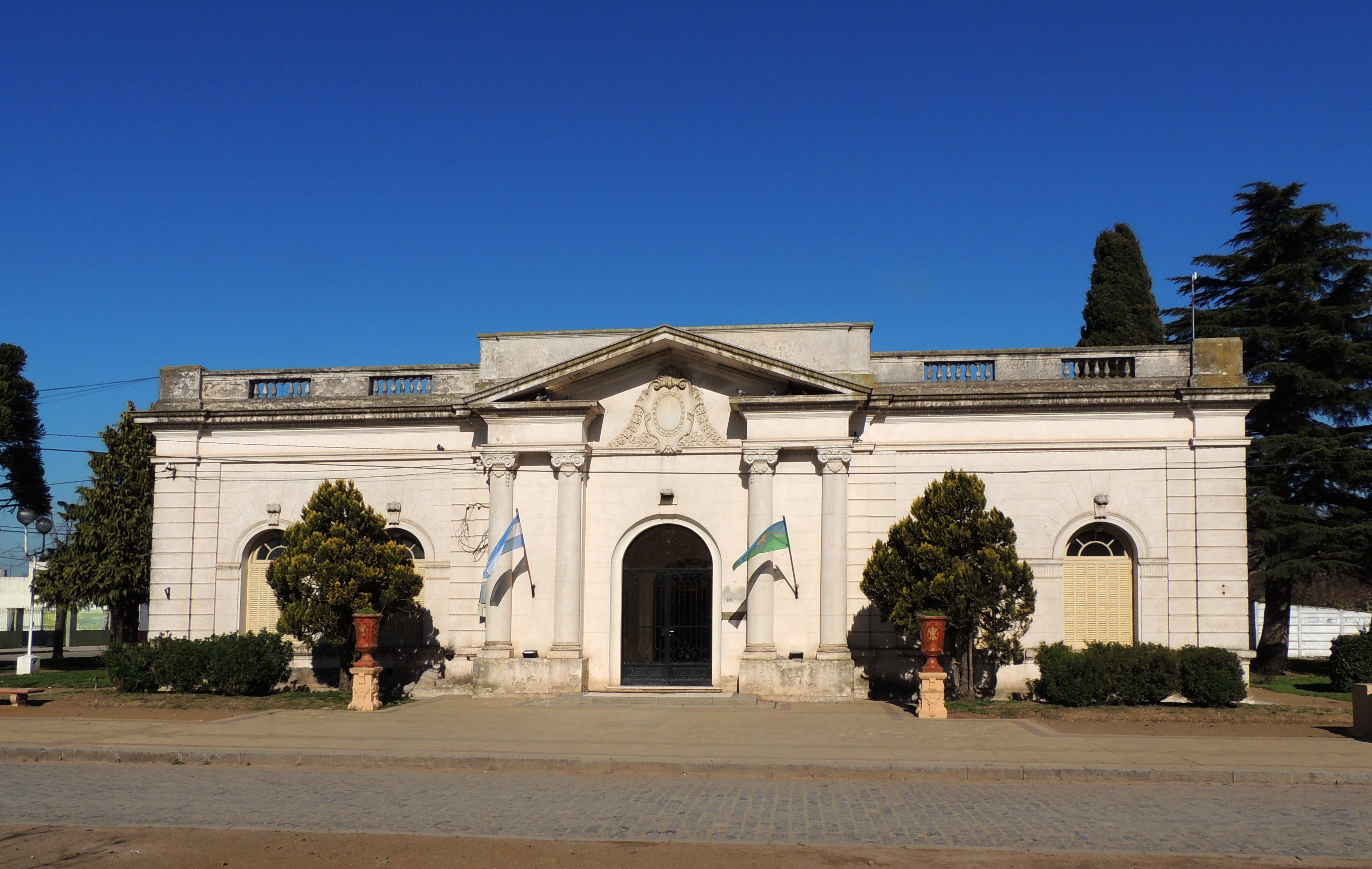 Building of Municipal Delegation, María Ignacia Vela, partido de Tandil, Argentina